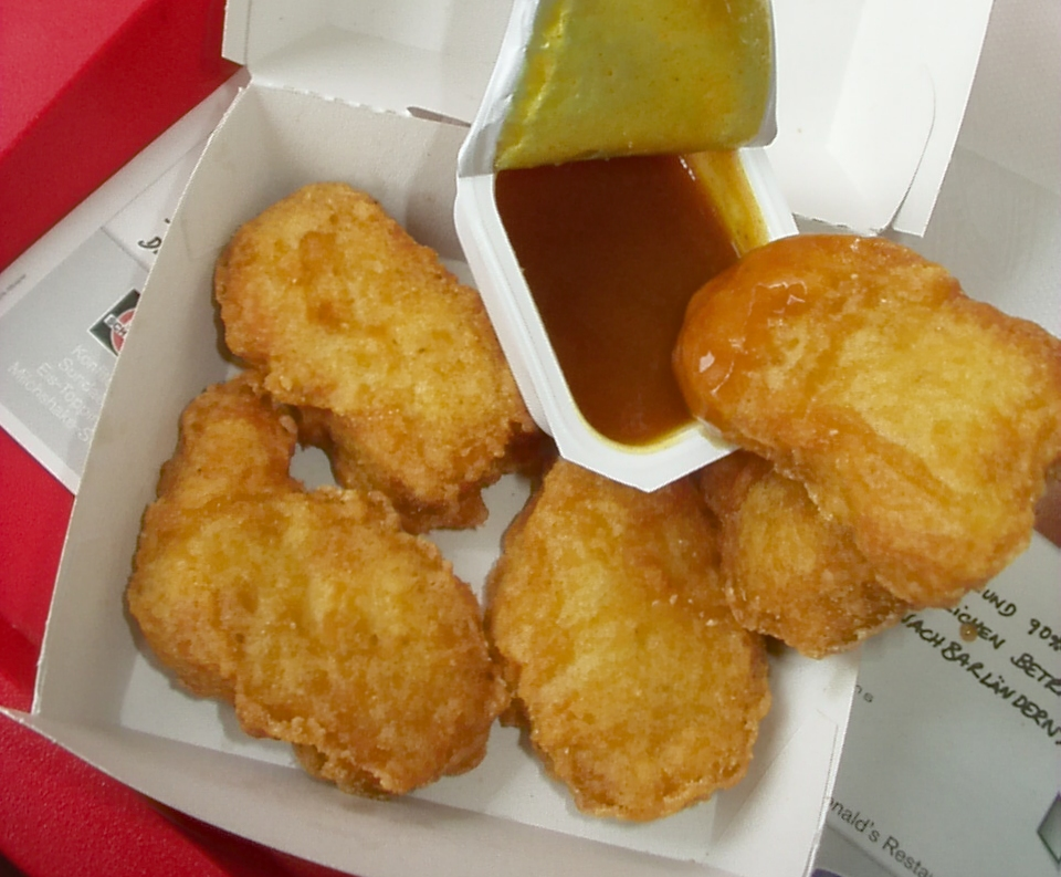 six chicken nuggets, bought at McDonald's Germany. I made the image on 2005-09-11. tasty chicken nuggets